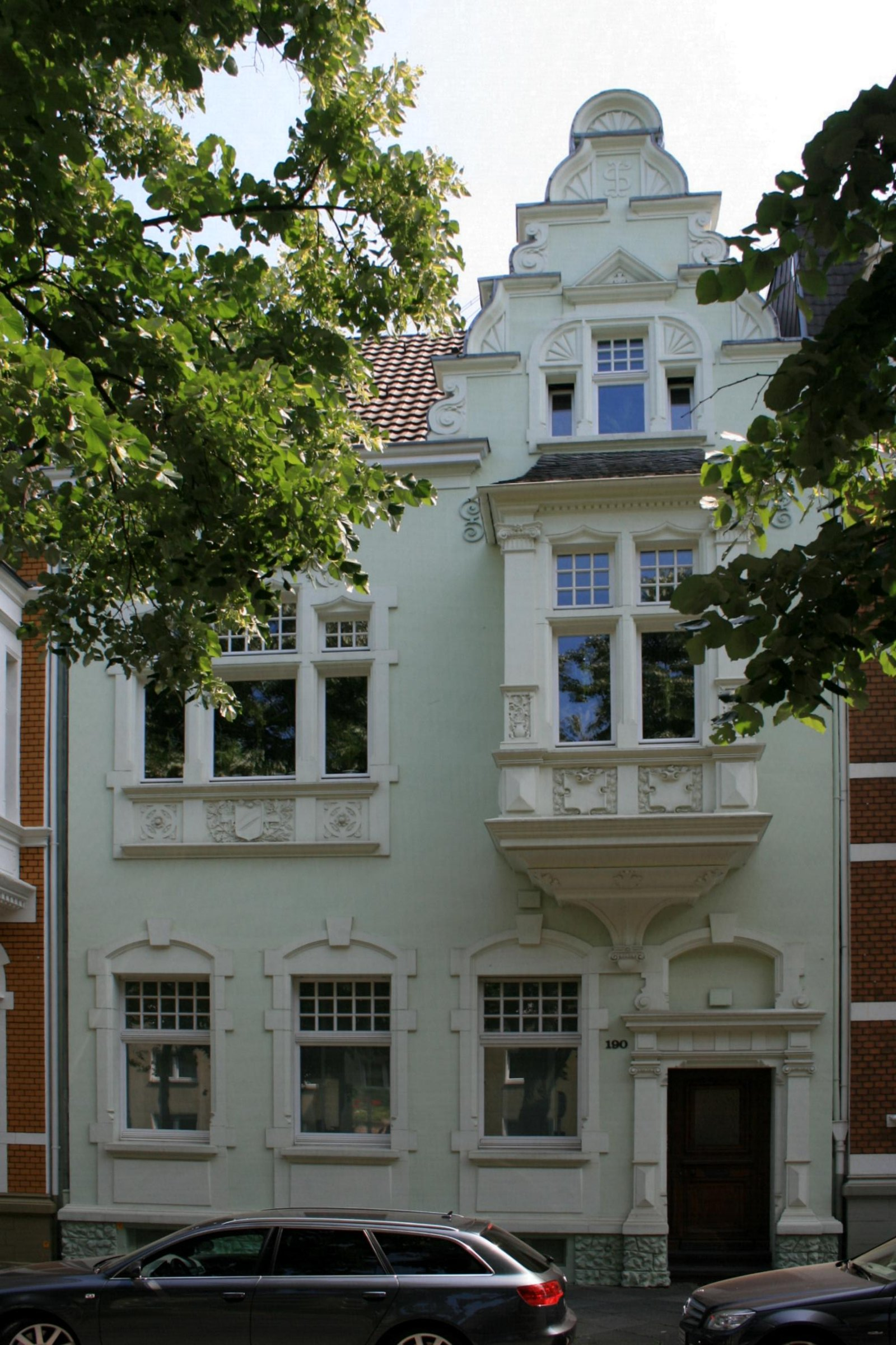 Cultural heritage monument No. B 100 in Mönchengladbach